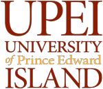 Logo for University of Prince Edward Island